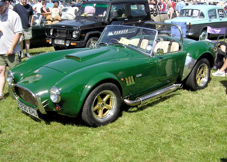 1999 Pilgrim Sumo an AC Cobra replica at a car rally in Bristol, England.